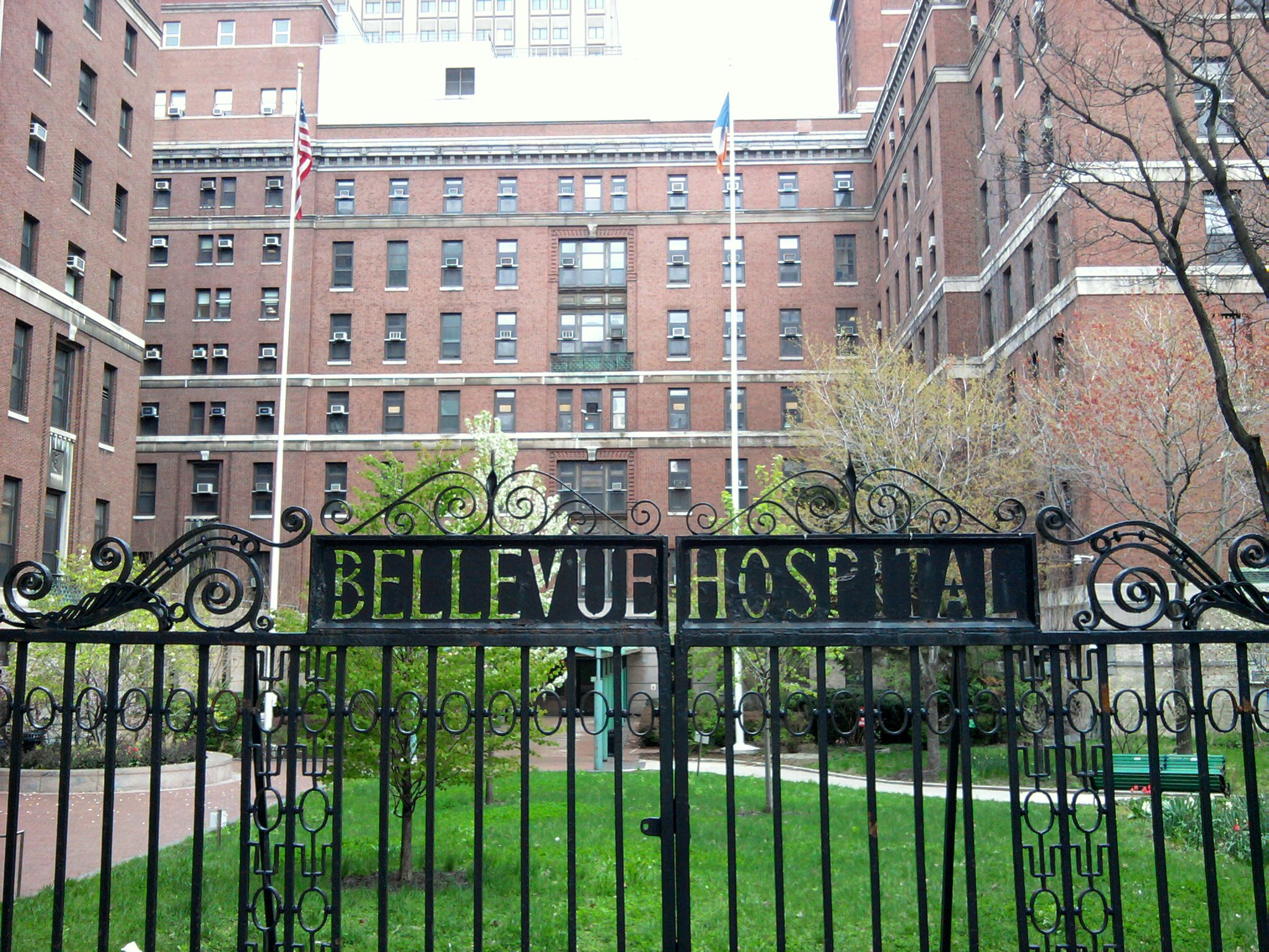 Looking east at old Bellevue front gate on a cloudy day.